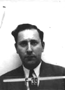 Robert E. Marshak Los Alamos wartime security badge.